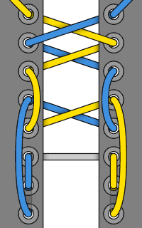 Lacing method often used for footbag freestyle, which opens up the toe area of the shoe, creating a larger playing surface